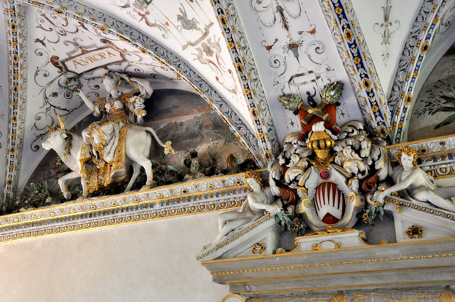 Schloss Bucovice